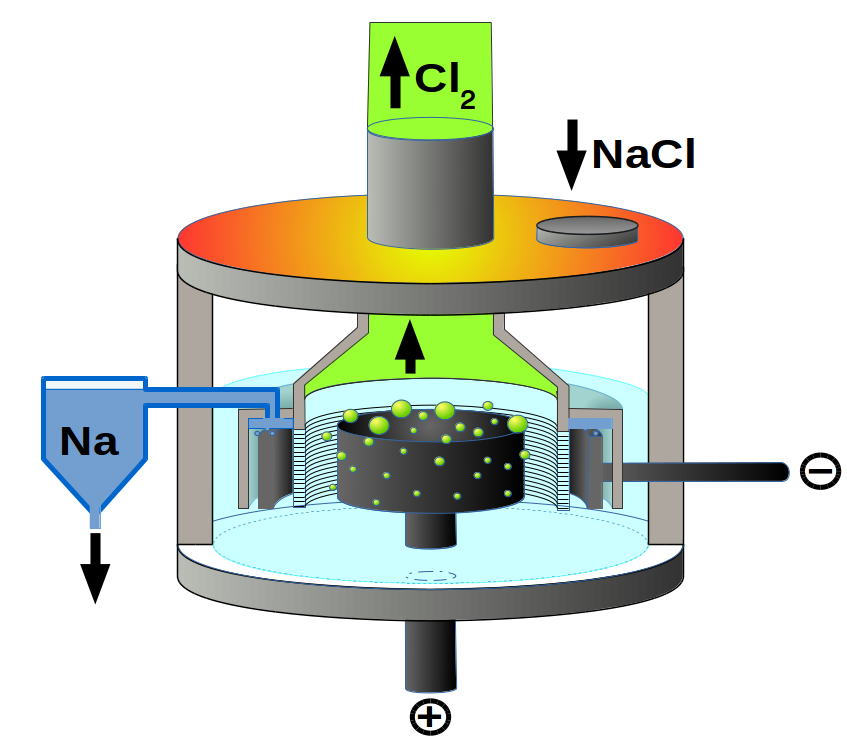 Schematic drawing of a Downs cell for the electrolysis of sodium chloride